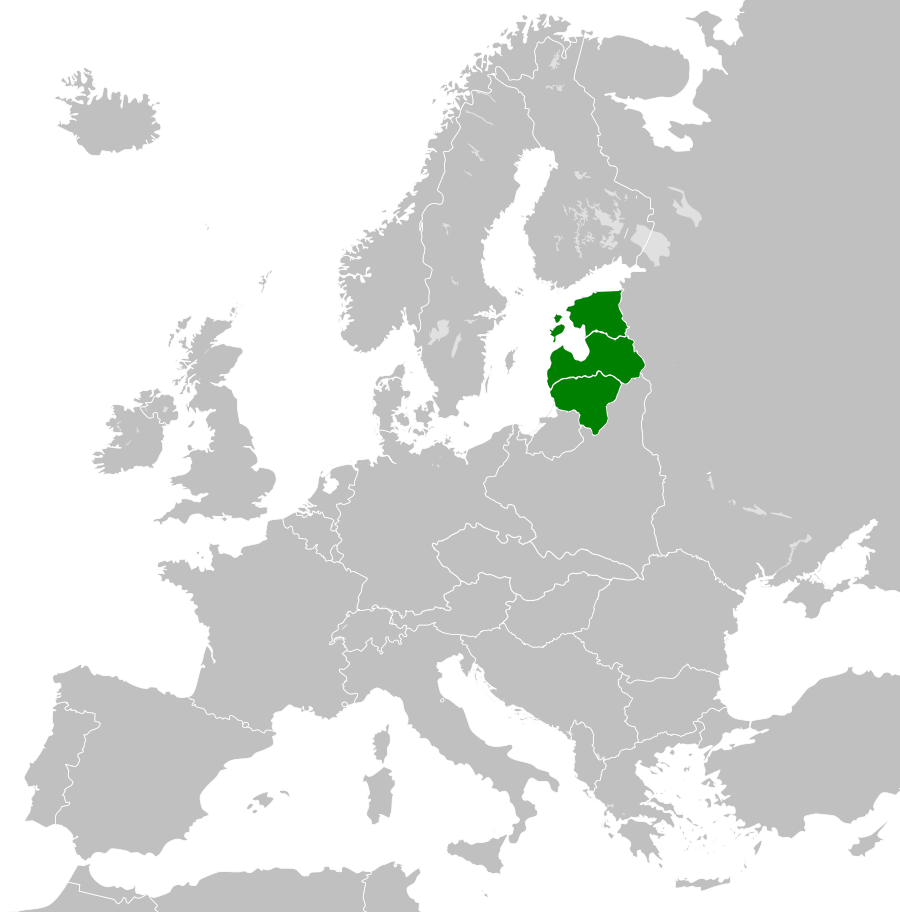 The Baltic Entente was first established in 1934 in Geneva. It comprised of the countries od Estonia, Latvia and Lithuania. All three nations were annexed by the Soviet Union in 1940.